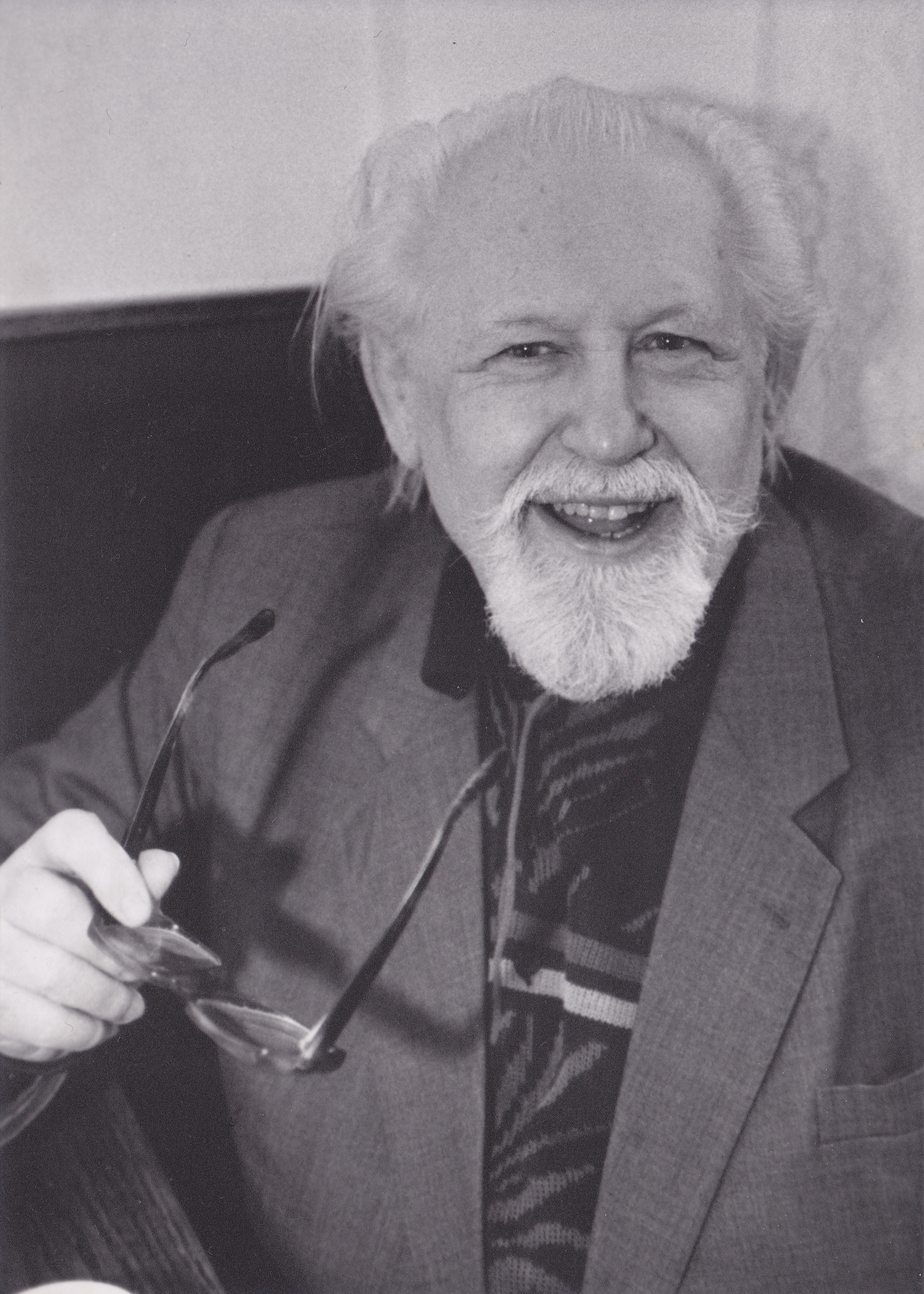 A photo of a famous painter Jiří Winter - Neprakta